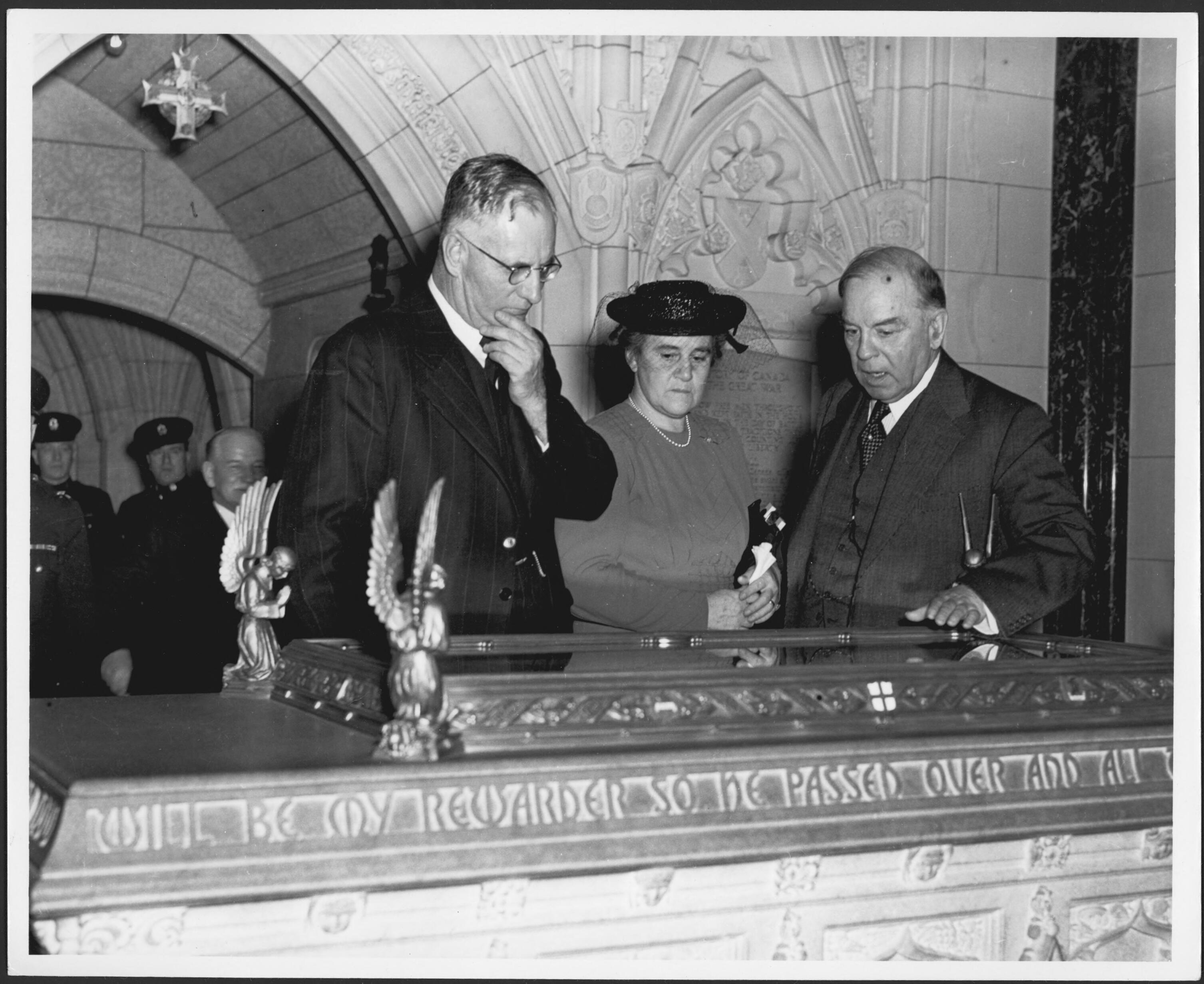 Mackenzie King, Prime Minister of Canada, hosting Prime Minister John Curtin of Australia and his wife Elsie at the Peace Tower in Parliament House, Ottawa. They are examining the Book of Remembrance.